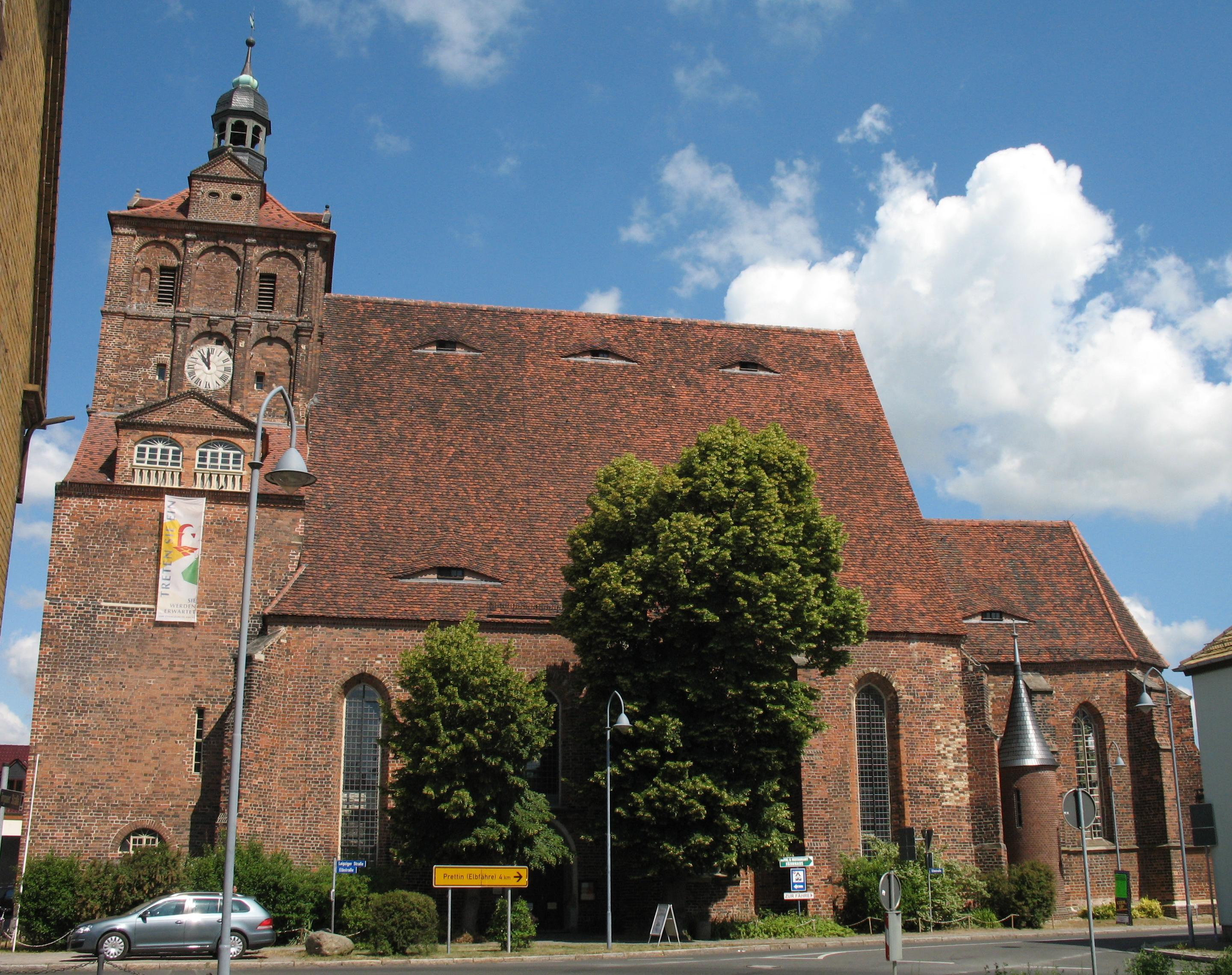 St. Mary’s Church in Dommitzsch in Saxony, Germany